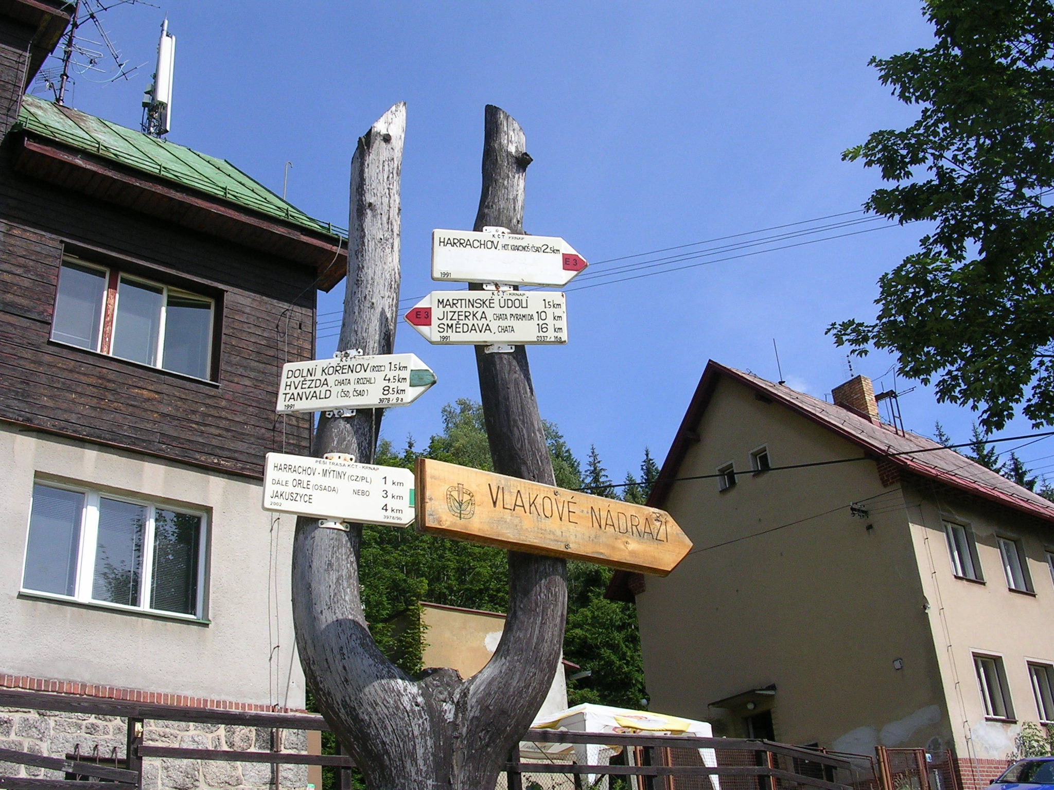 Harrachov-Mýtiny, Semily District, Liberec Region. Hiking fingerpost near the train station. - Google Maps - Google Earth